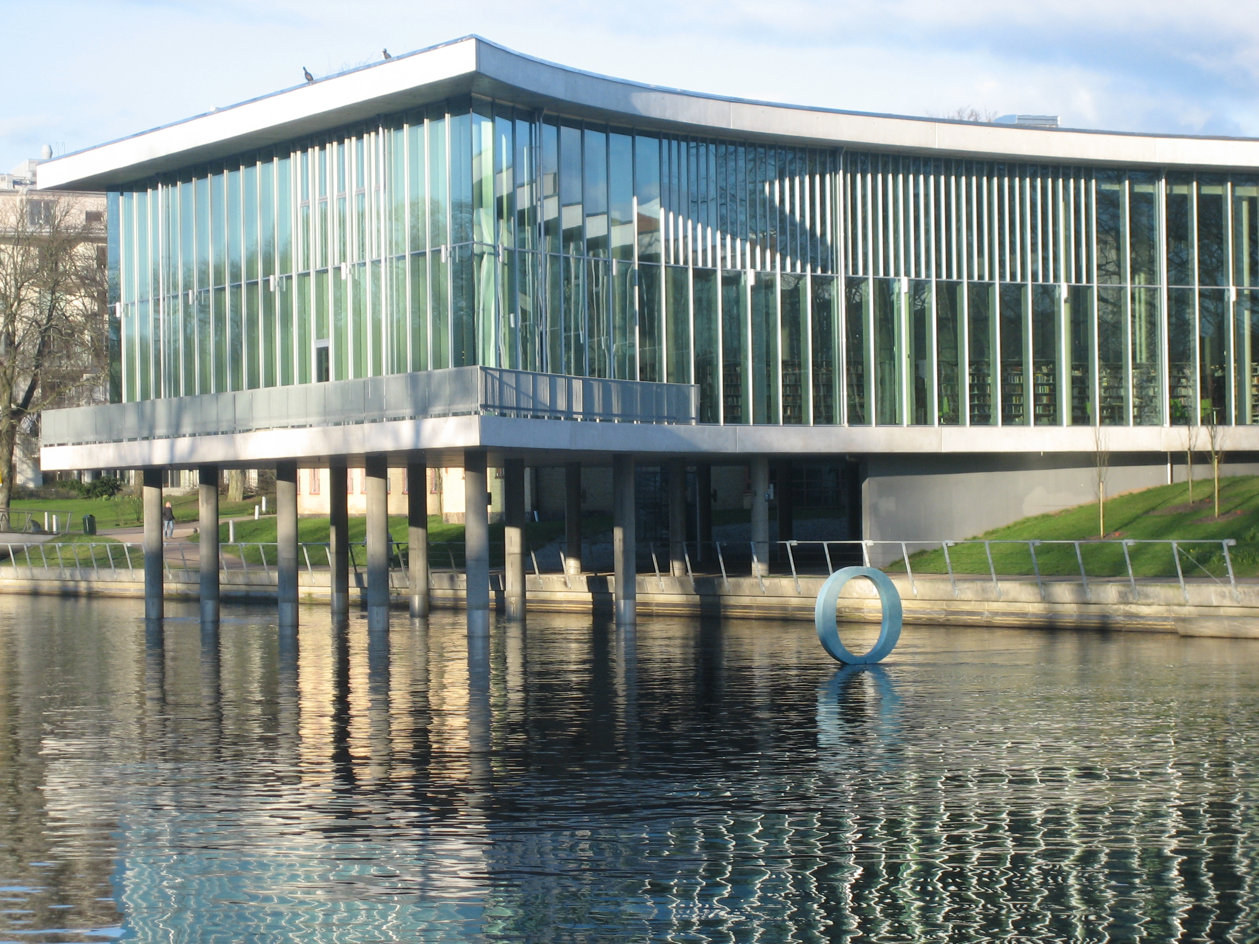 Exterior view of the public library in Halmstad, March 2008.